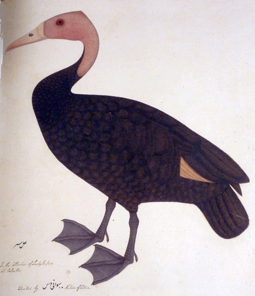 Painting of Rhodonessa caryophyllacea by Bhawani Das from a live specimen